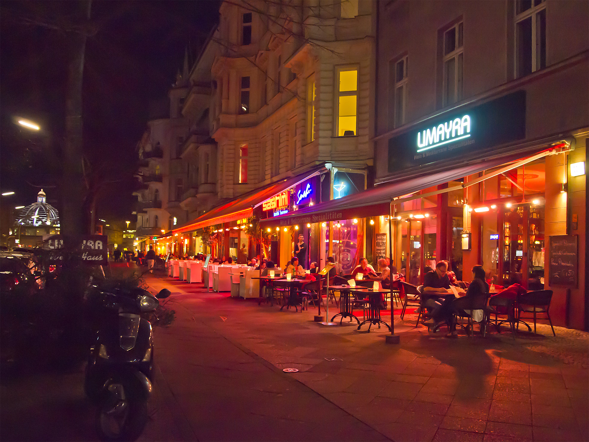 Street Maaßenstraße in Berlin-Schöneberg between Winterfeldtplatz and U-Bahn „Nollendorfplatz“ O3231149-vfh.jpg